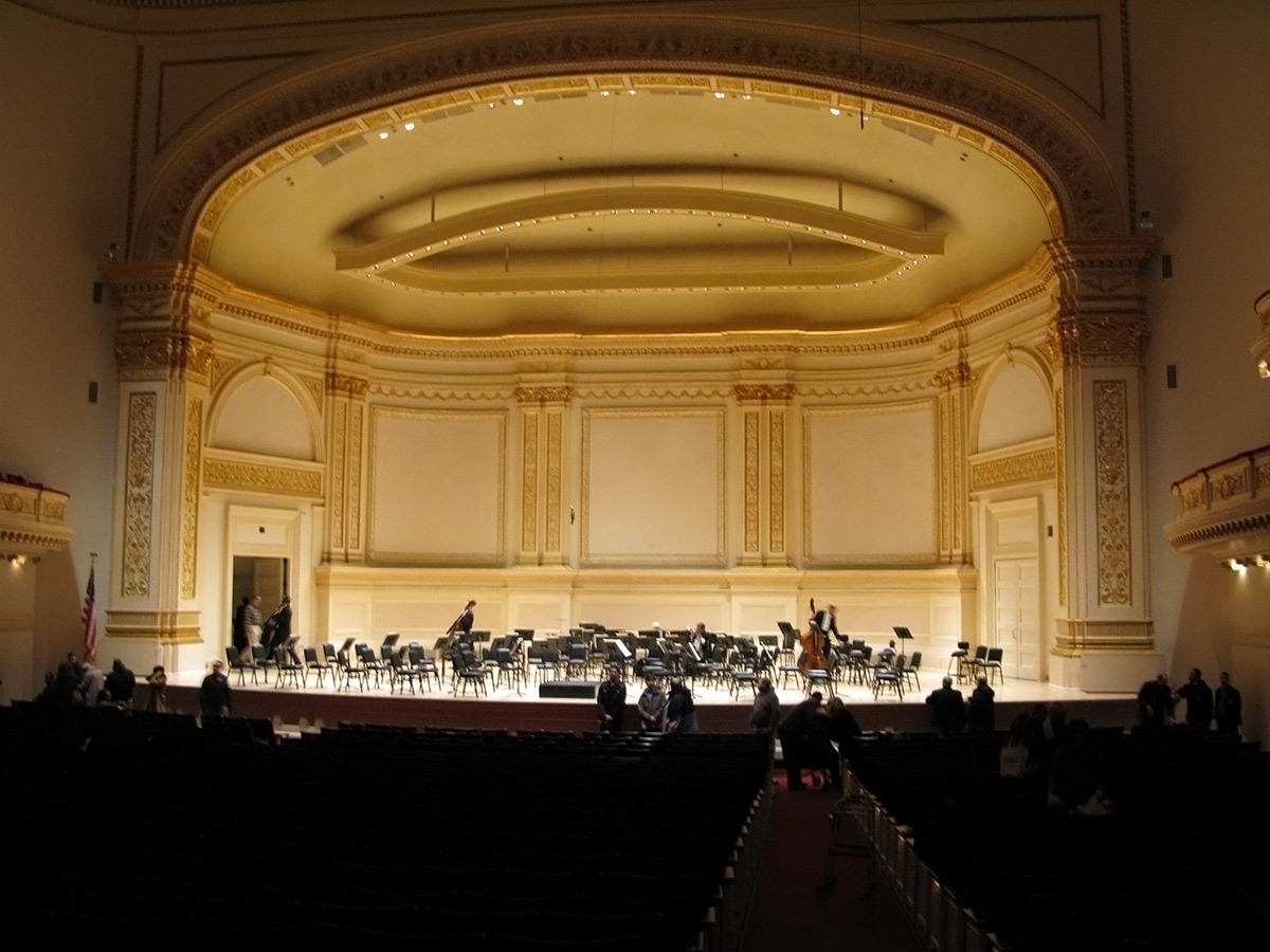 A post-concert photo of the main hall's stage inside of Carnegie Hall.